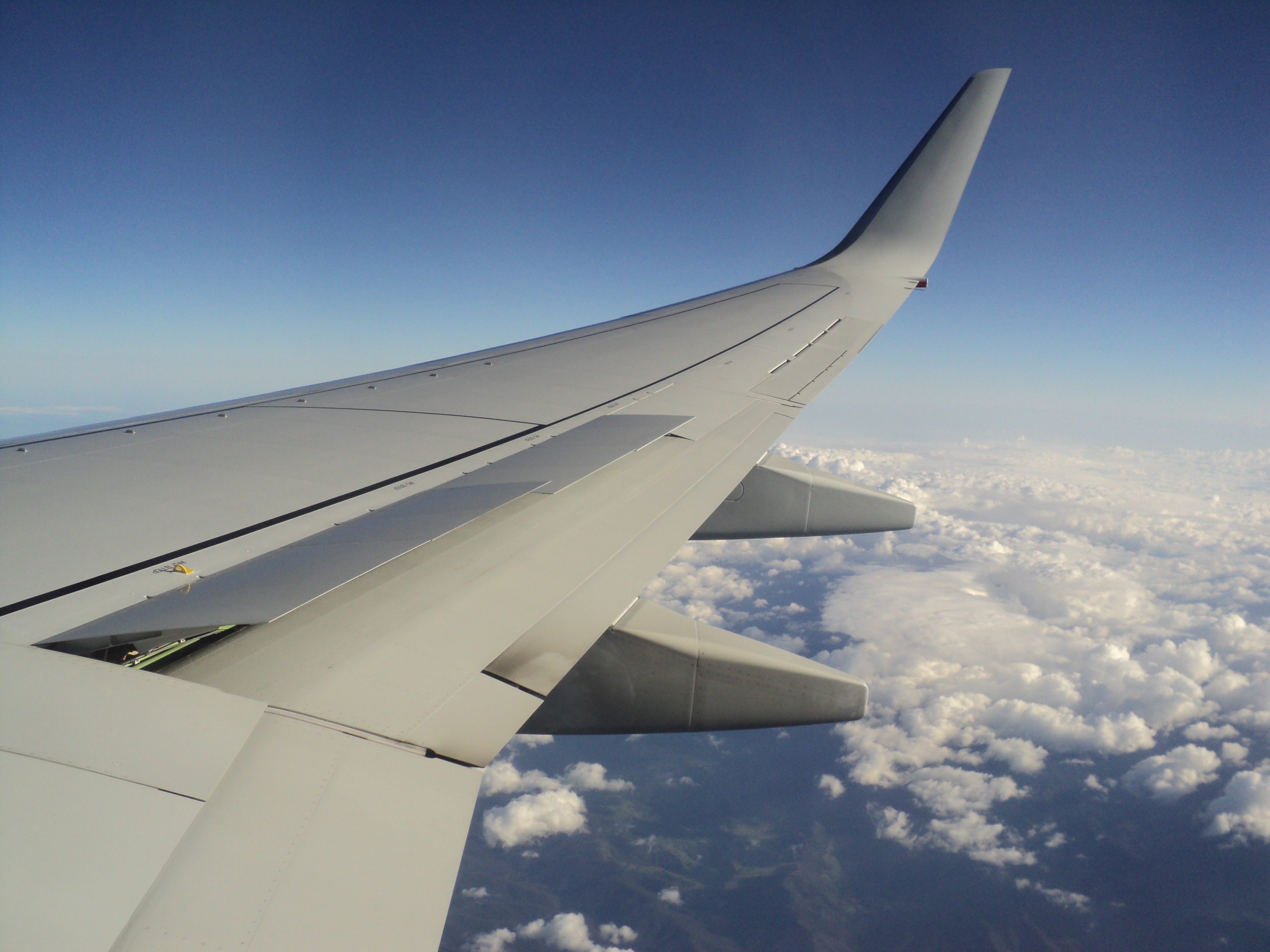 A Qantas Boeing 737-800 enroute from AKL-MEL deploys it's spoilers to slow down and prepare for descent into Melboune.